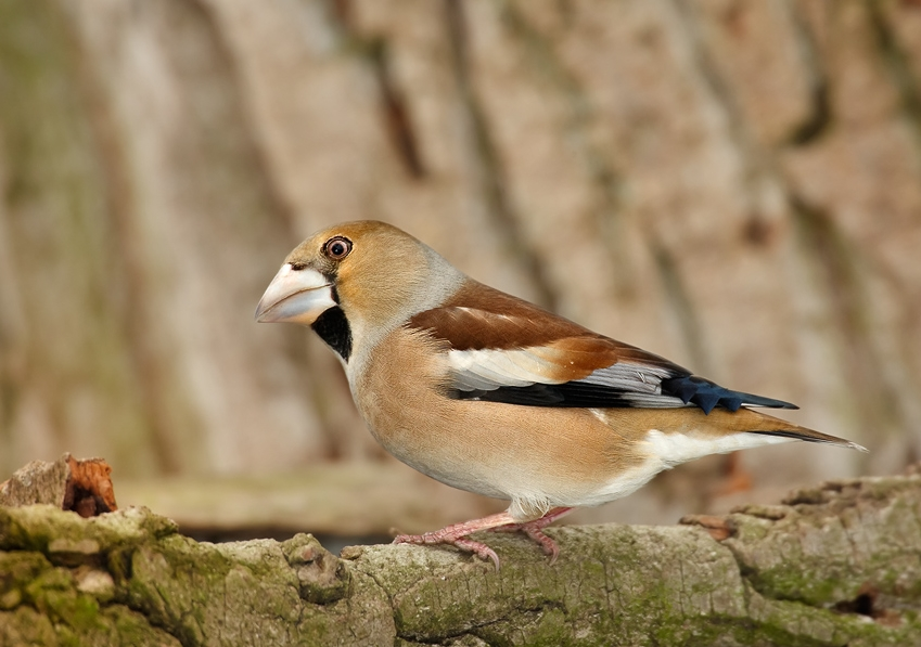 Coccothraustes coccothraustes - female